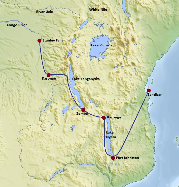 A map of the telegraph laying expedition made by Richard Mohun from 1898 to 1901. Based on a Topographic map of Africa with Cassini cylindrical projection